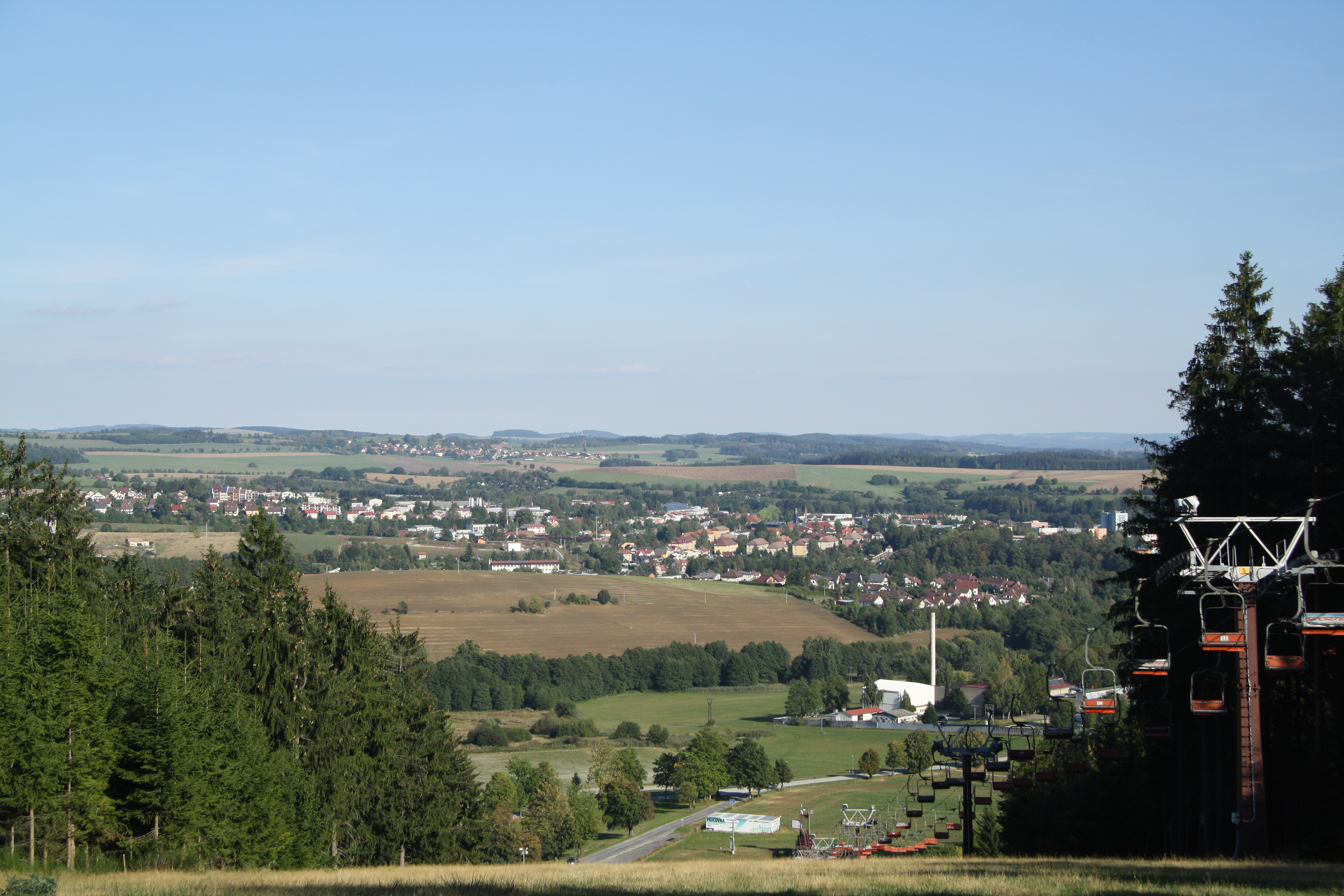 Overview of Bítešská vrchovina from Harusův kopec in Nové Město na Moravě, Žďár nad Sázavou District.